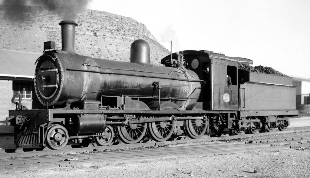 Ex Cape Government Railways Class 6 607 (4-6-0), renumbered to 547South African Railways Class 6H 629 (4-6-0)Location: Midlandia Loco